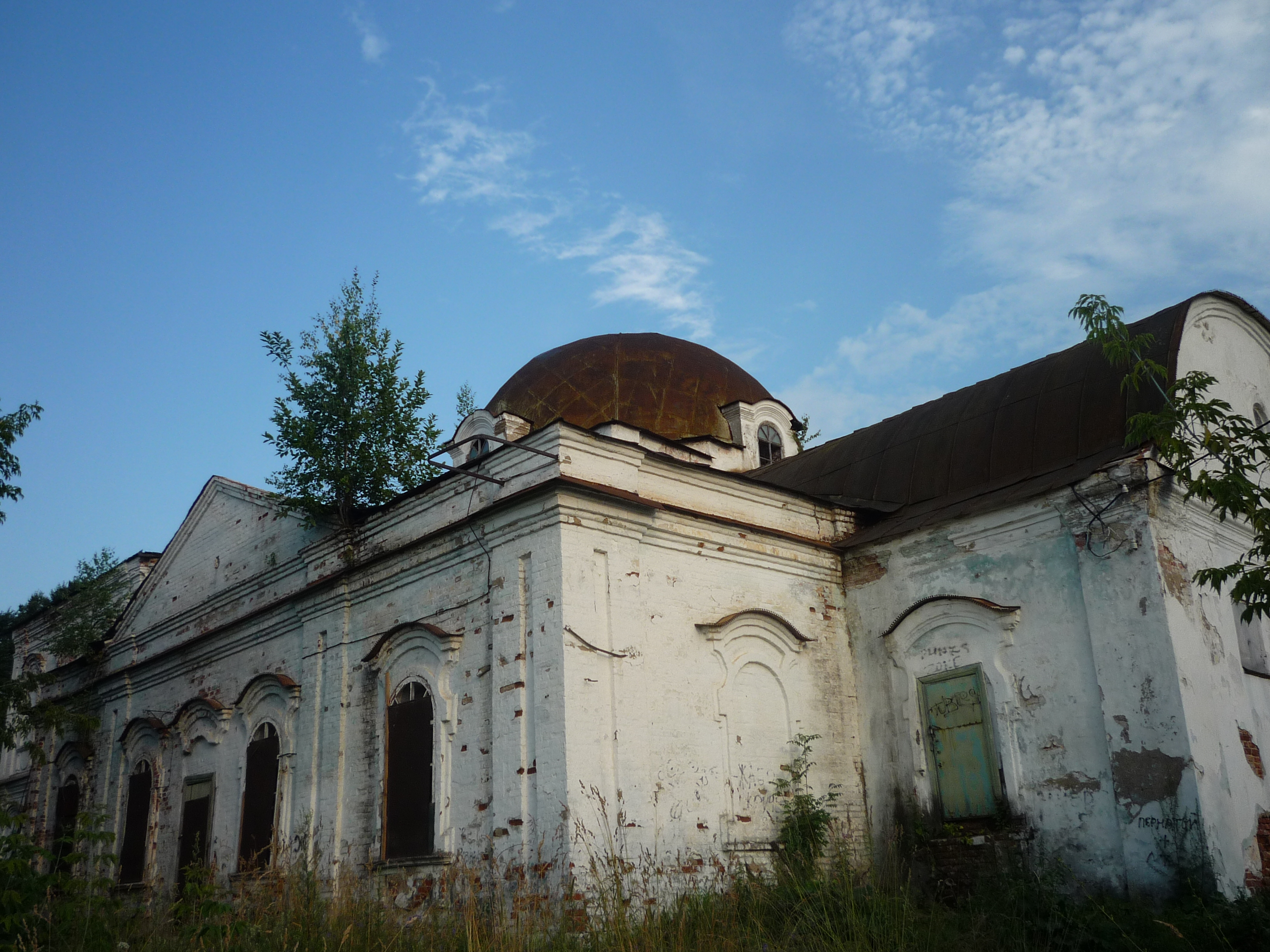 Рождественская церковь.Никологоры